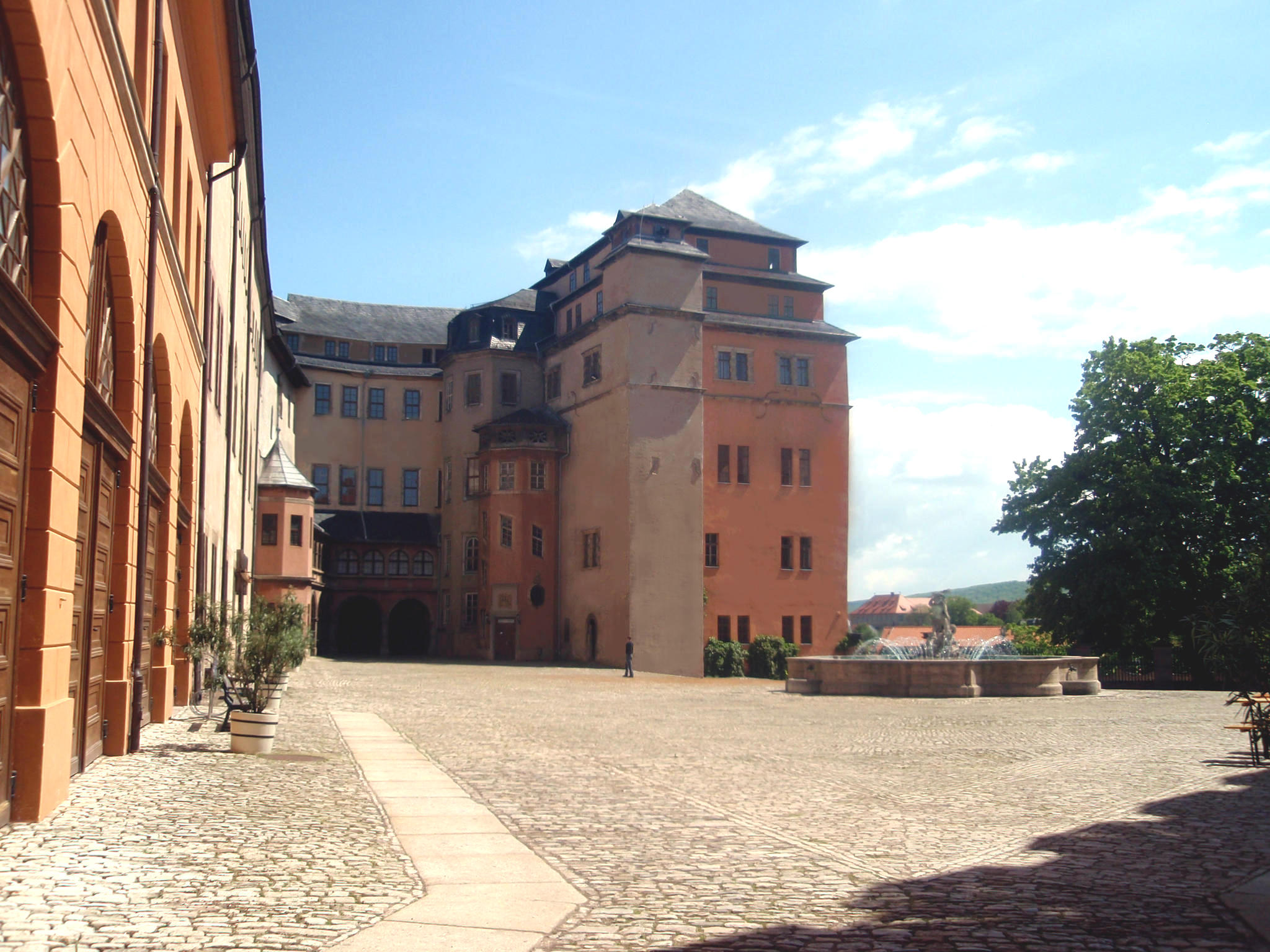 Sondershausen Palace, South-East-North-Wings